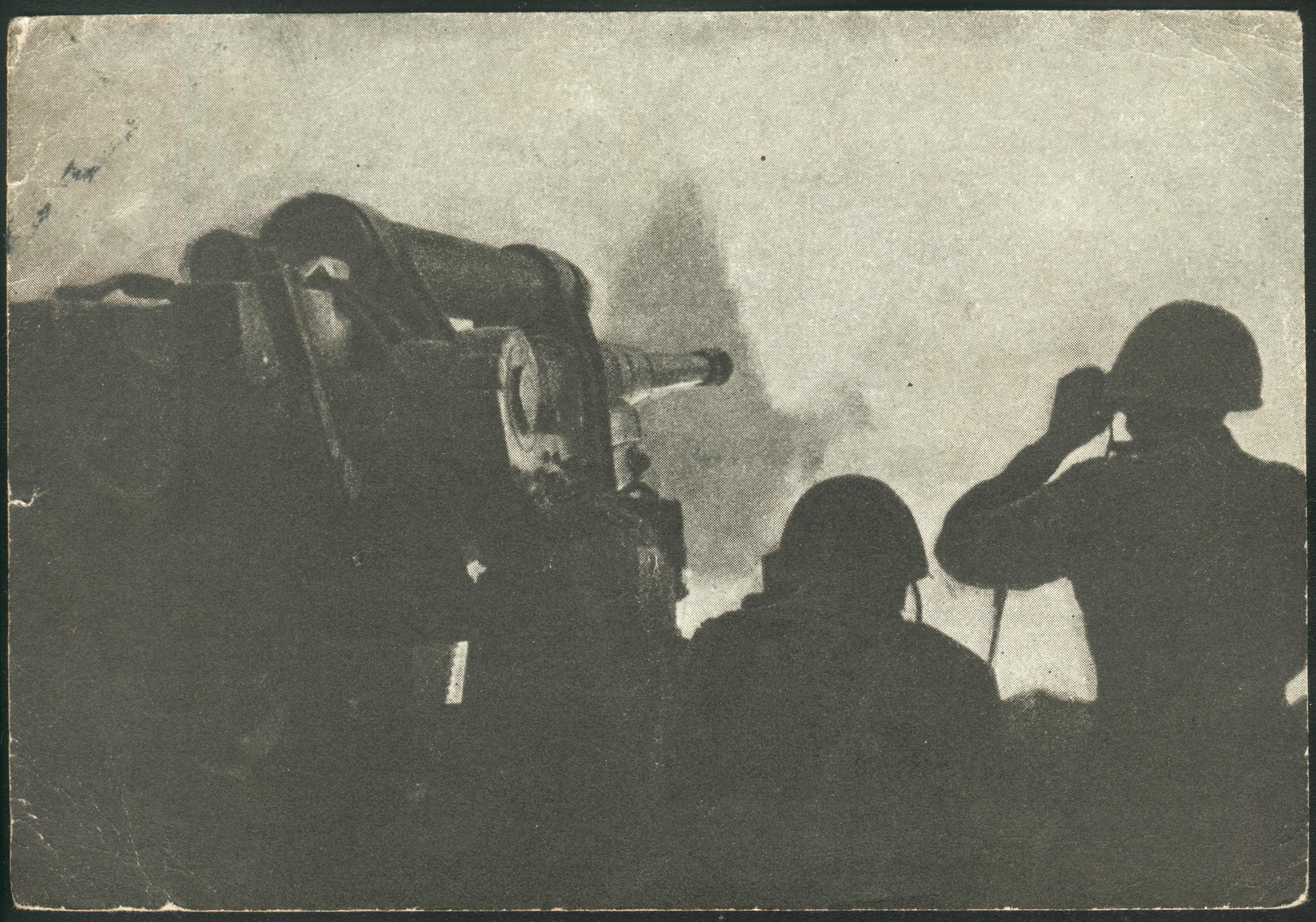 Artillery, USSR War Postcard, April 1942, face (obverse) side.